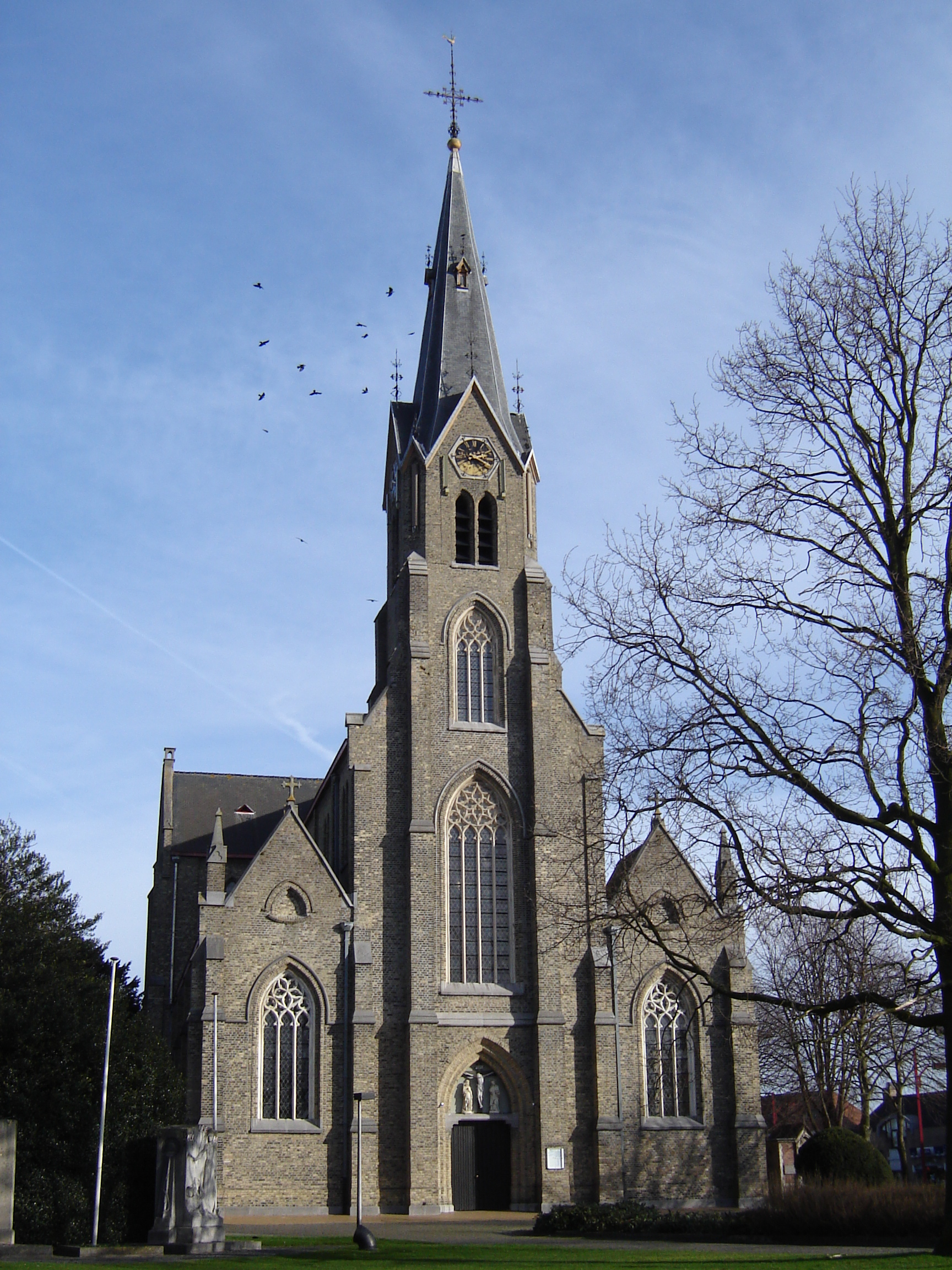 Church of the Exaltation of the Cross and Saint Joseph in Sint-Kruis. Sint-Kruis, Brugge, West Flanders, Belgium.